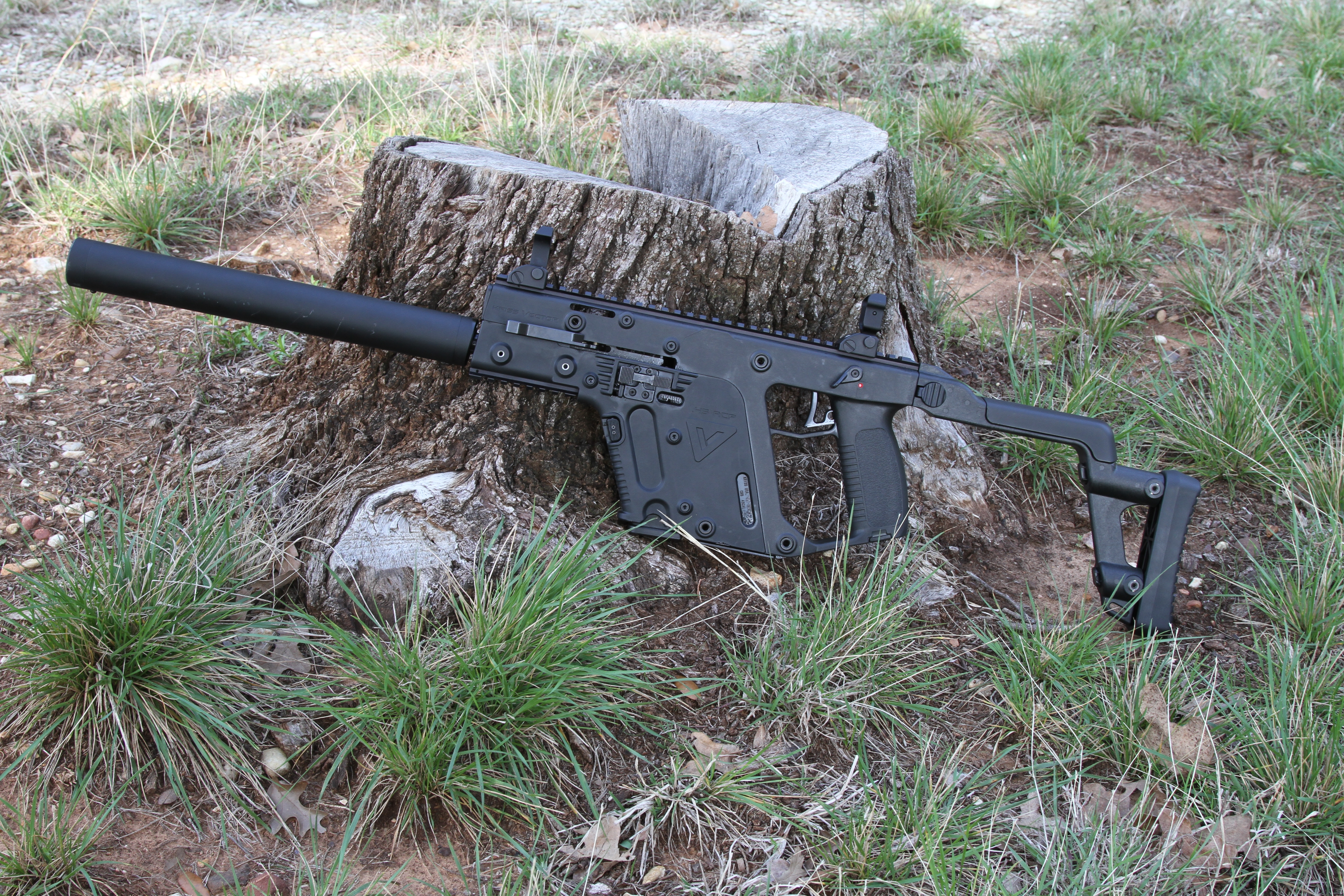 left view of Kriss Vector Carbine